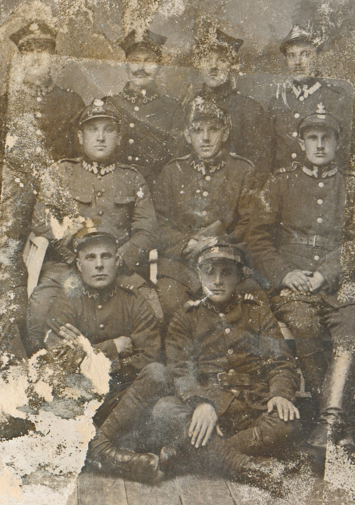 Part of the photo interned polish soldiers in Hungary (1940). Probably the soldiers are from 4 Sappers Regiment (from the collection of M. Zych).